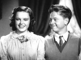 Cropped screenshot of Judy Garland and Mickey Rooney from the trailer for the film Love Finds Andy Hardy.